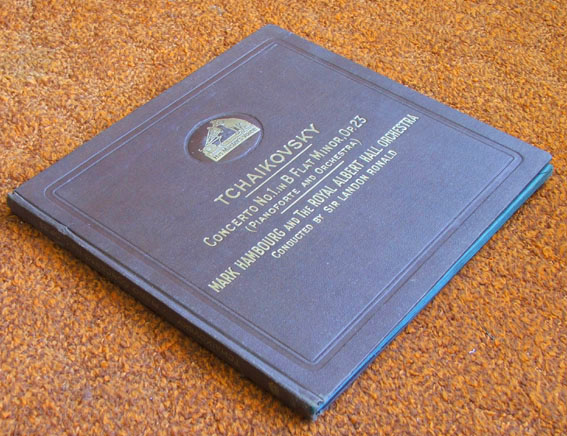 An early book-format music album containing several 78s